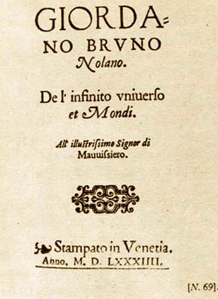 First page of Giordano Bruno, "De l'infinito, universo e mondi", 1584